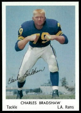 A 1959 promotional image of Los Angeles Rams player Charlie Bradshaw.